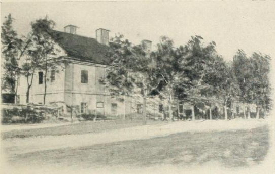 Csadád, the house where Lenau was born